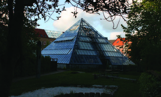 Wastewater purification pyramid in Kolding, Denmark. Captured by Nels Nelson.